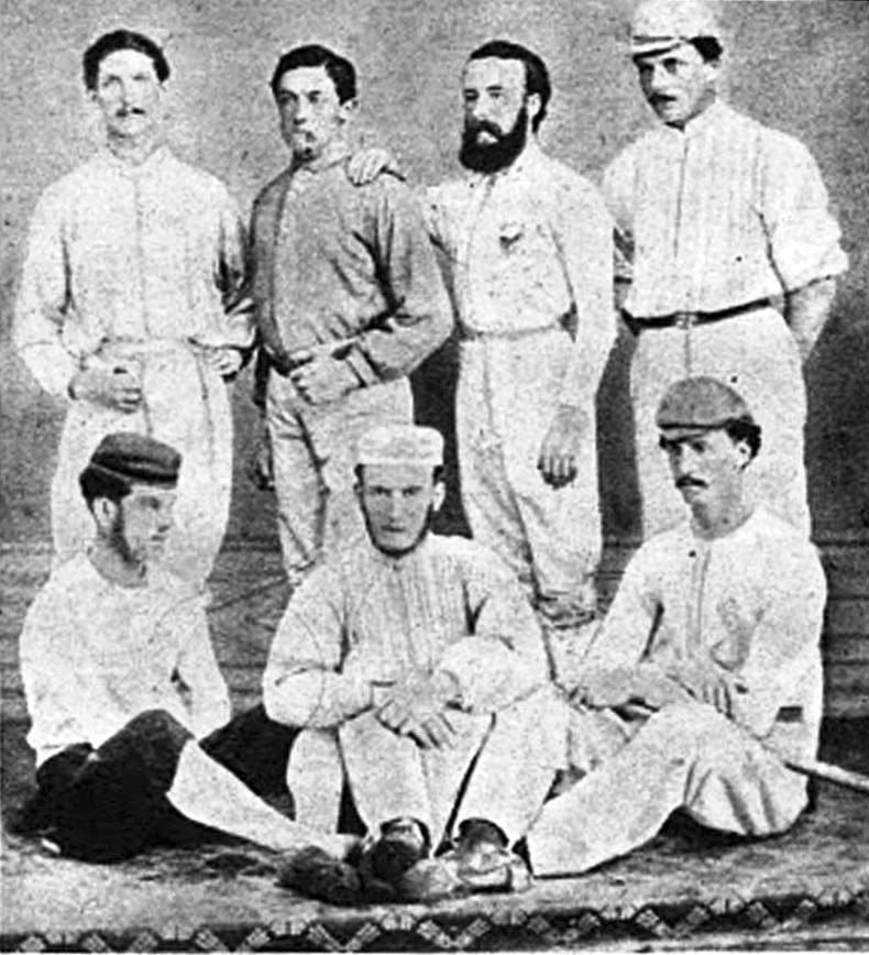 James and Thomas Hogg founders of the Buenos Aires Football Club.